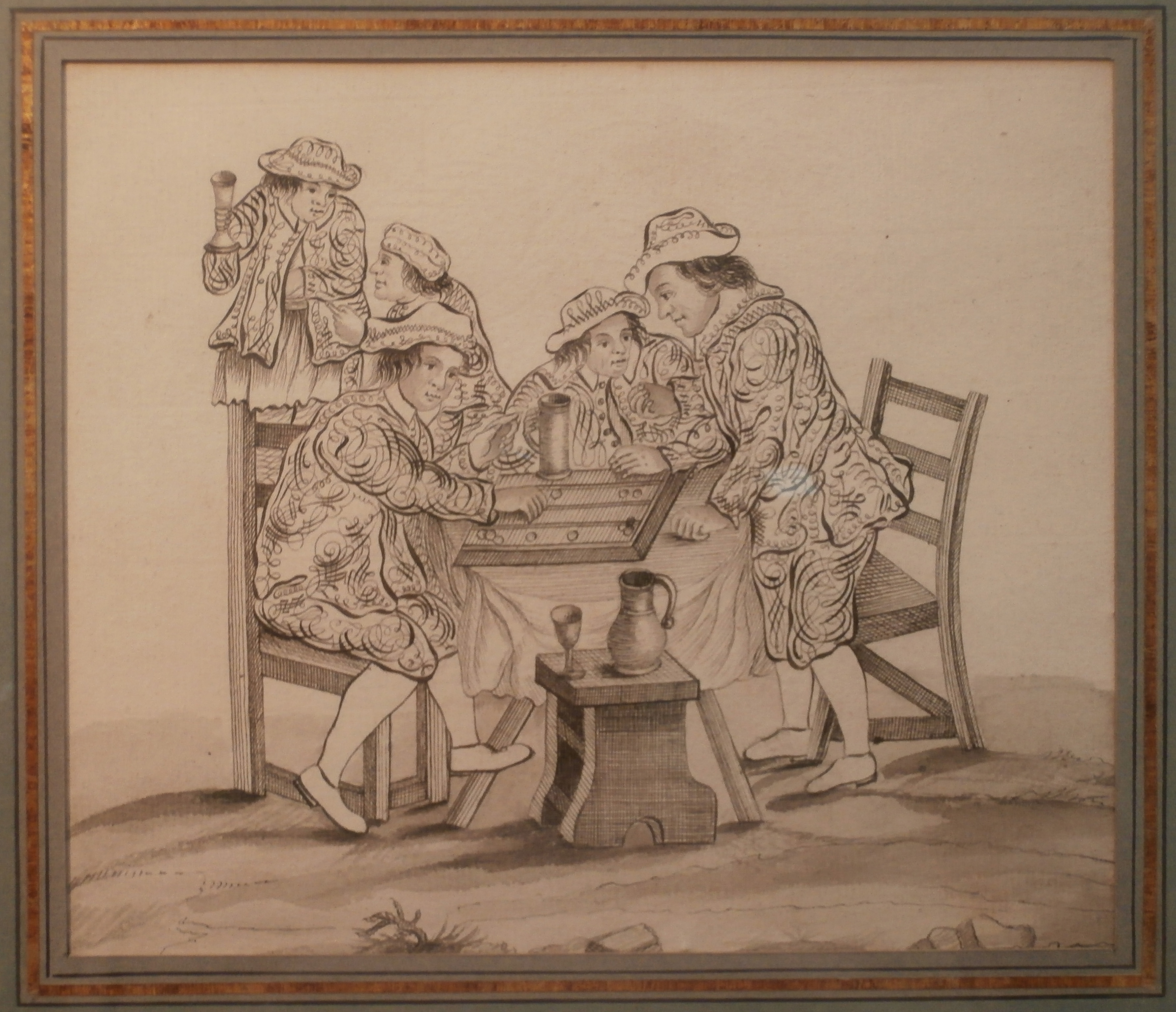 Joueurs de tric-trac, trait de plume d'Auvrest d'après Teniers.